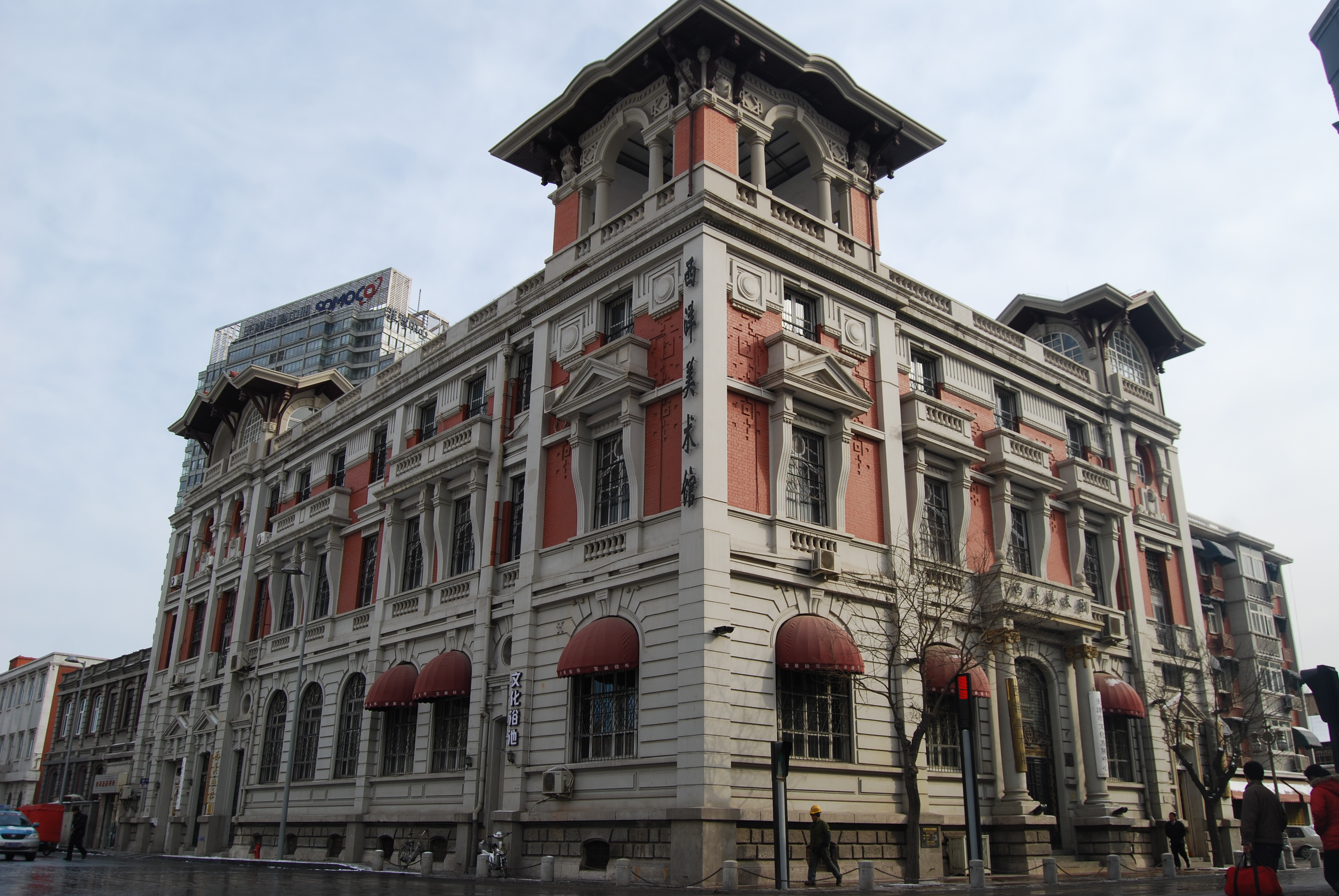 Former L'indo Bank of China in Jiefangbei Lu No. 77–79, Heping District, Tianjin